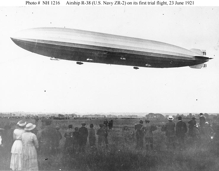 Airship R-38/ZR-2 makes its first trial flight at Cardington, England.